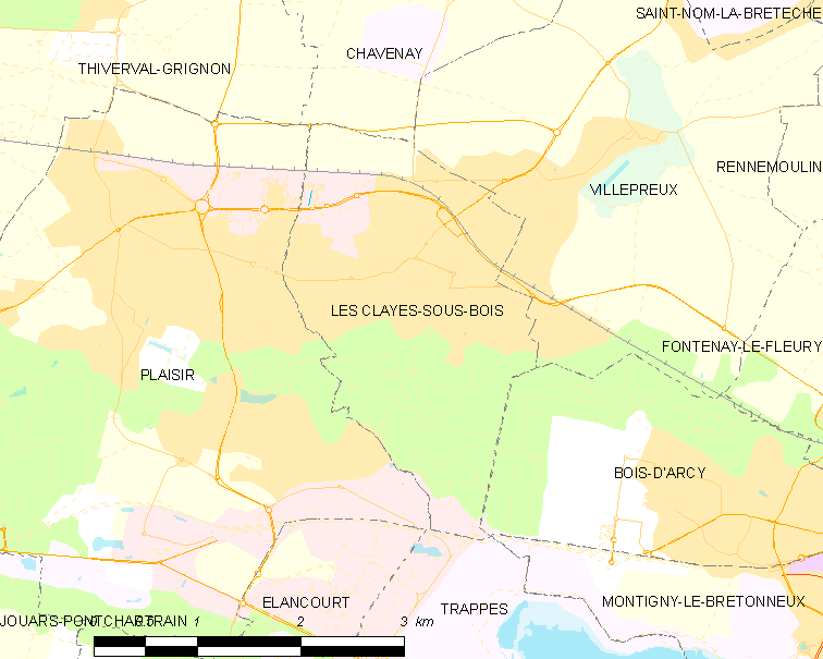 Map of French municipality Les Clayes-sous-Bois